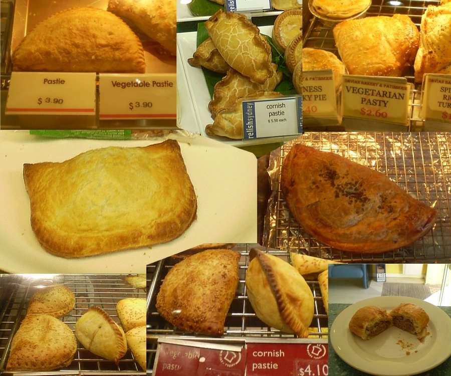 Various pasties from Australia